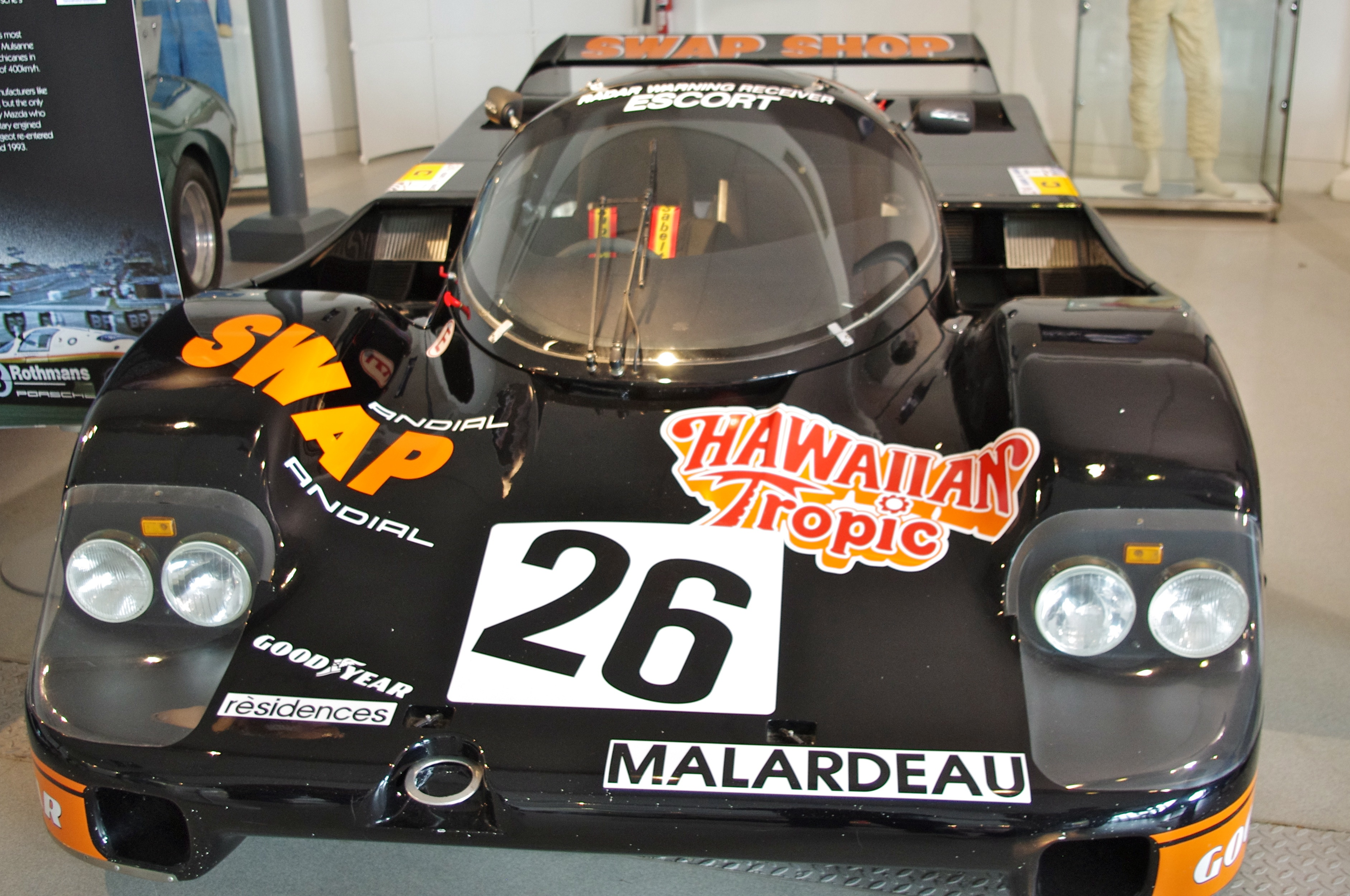 Porsche 956 chassis#103, classified 2nd at 24H of Le Mans 1984, from U.S. team "Henn's T-Bird Swap Shop" driven by Jean Rondeau and John Paul,jr. displayed at Coventry Transport Museum